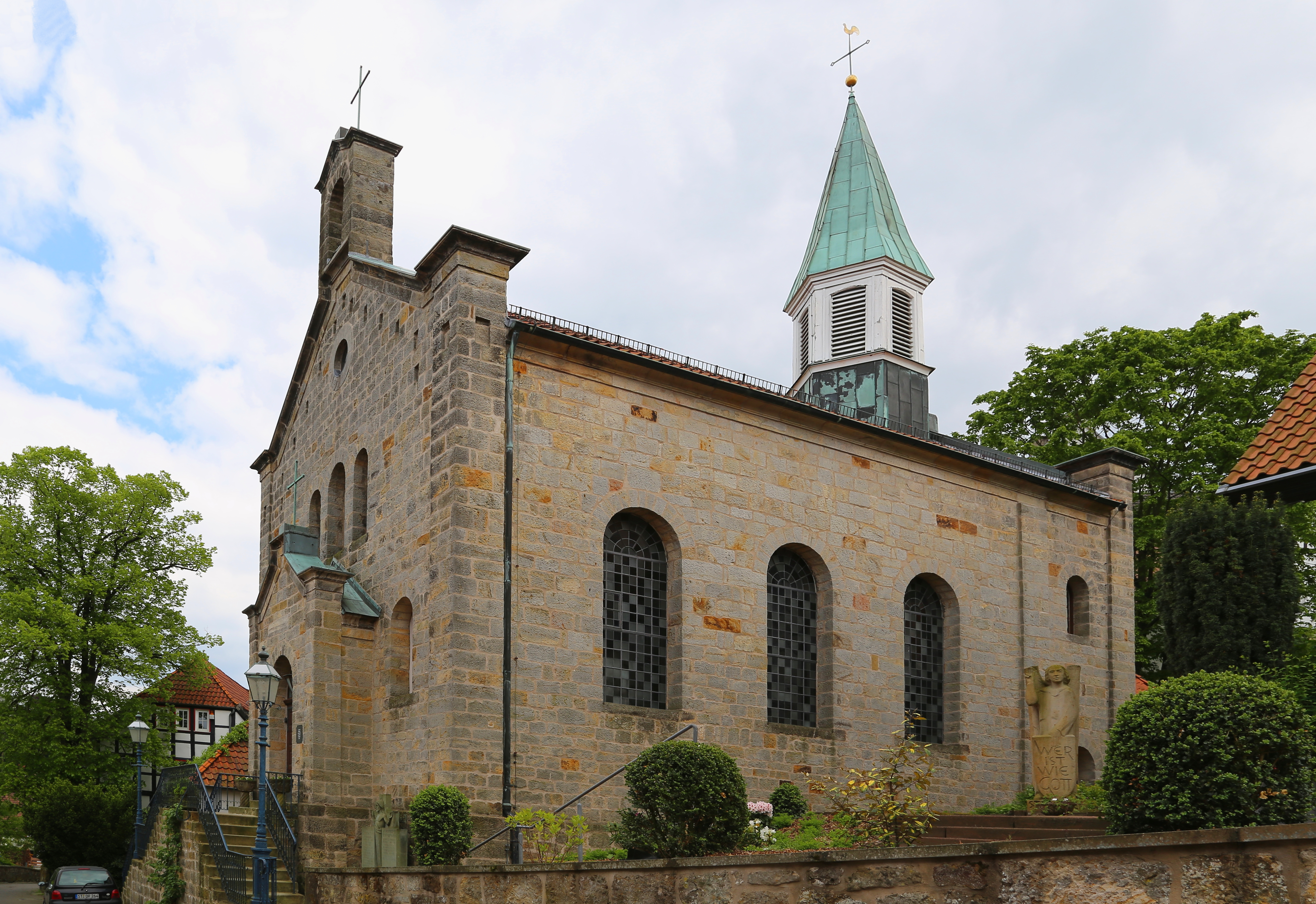 Roman Catholic Saint Michael Parish Church (Pfarrkirche St. Michael) in Tecklenburg, Kreis Steinfurt, North Rhine-Westphalia, Germany.